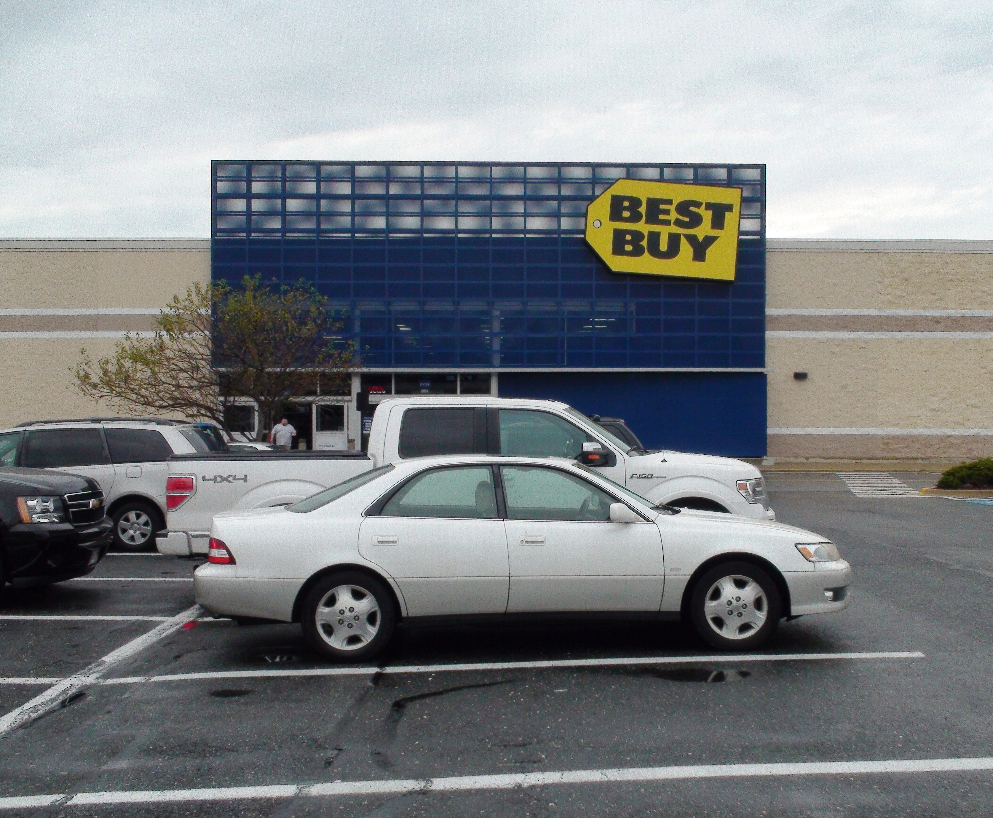 A Best Buy store in Germantown, Maryland on October 7, 2014. This particular store opened in late 2002. Photograph taken on October 7, 2014, in Germantown, Maryland, with a Sony HDR-SR11 camcorder, by Illegitimate Barrister.